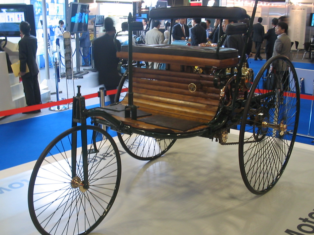 Benz first 3-wheel car